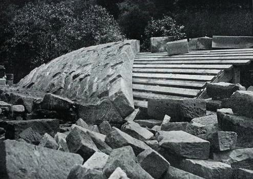 Sickergill Skew Bridge over the River Raven at Renwick, near Penrith, under construction, showing the helicoidal coursing of the stones.